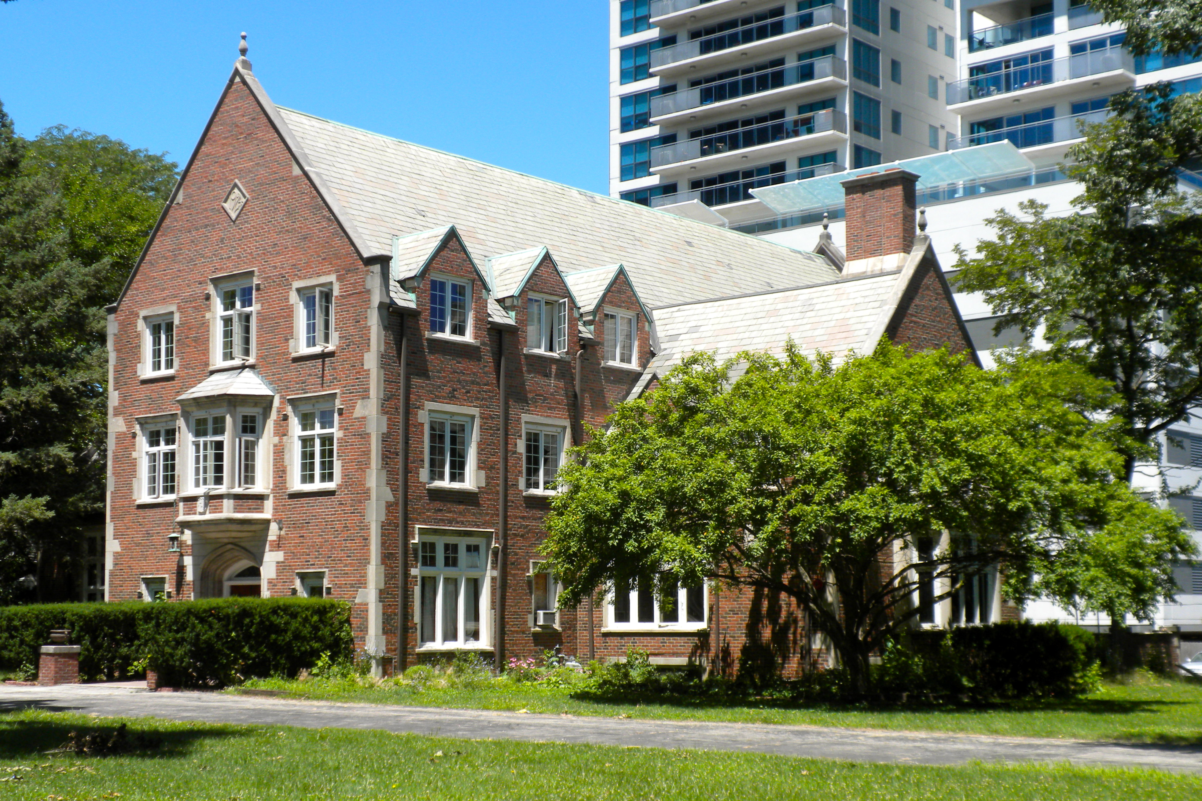 Alpha Delta Phi Fraternity House at the University of Illinois on the NRHP since May 21, 1990. At 310 E. John St., Champaign, Illinois. Big "Greek" campus